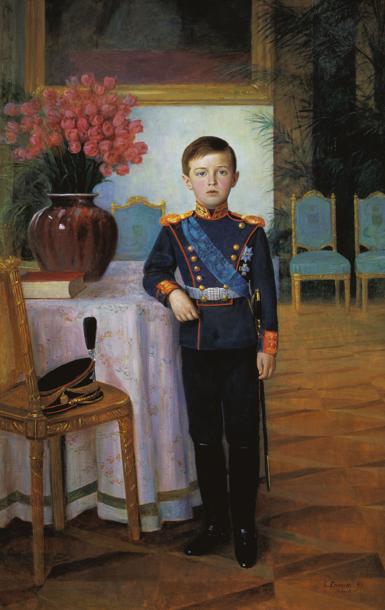 Tsesarevich Alexei Nikolaevich. oil on canvasmedium QS:P186,Q296955;P186,Q4259259,P518,Q861259